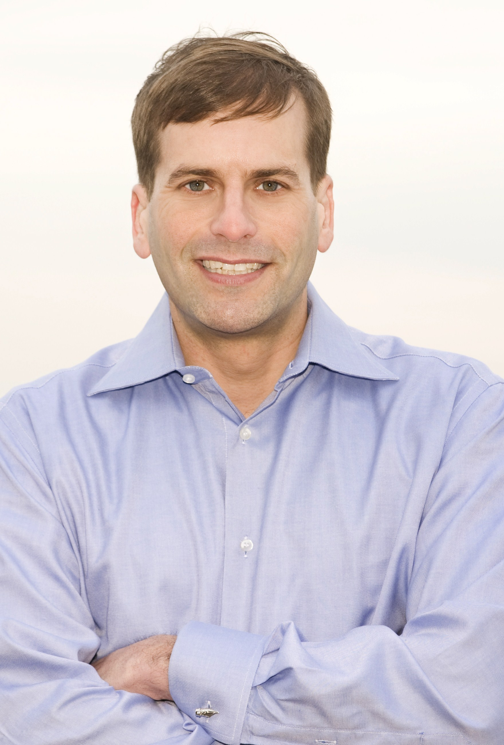 Evan Mandery Author Photo